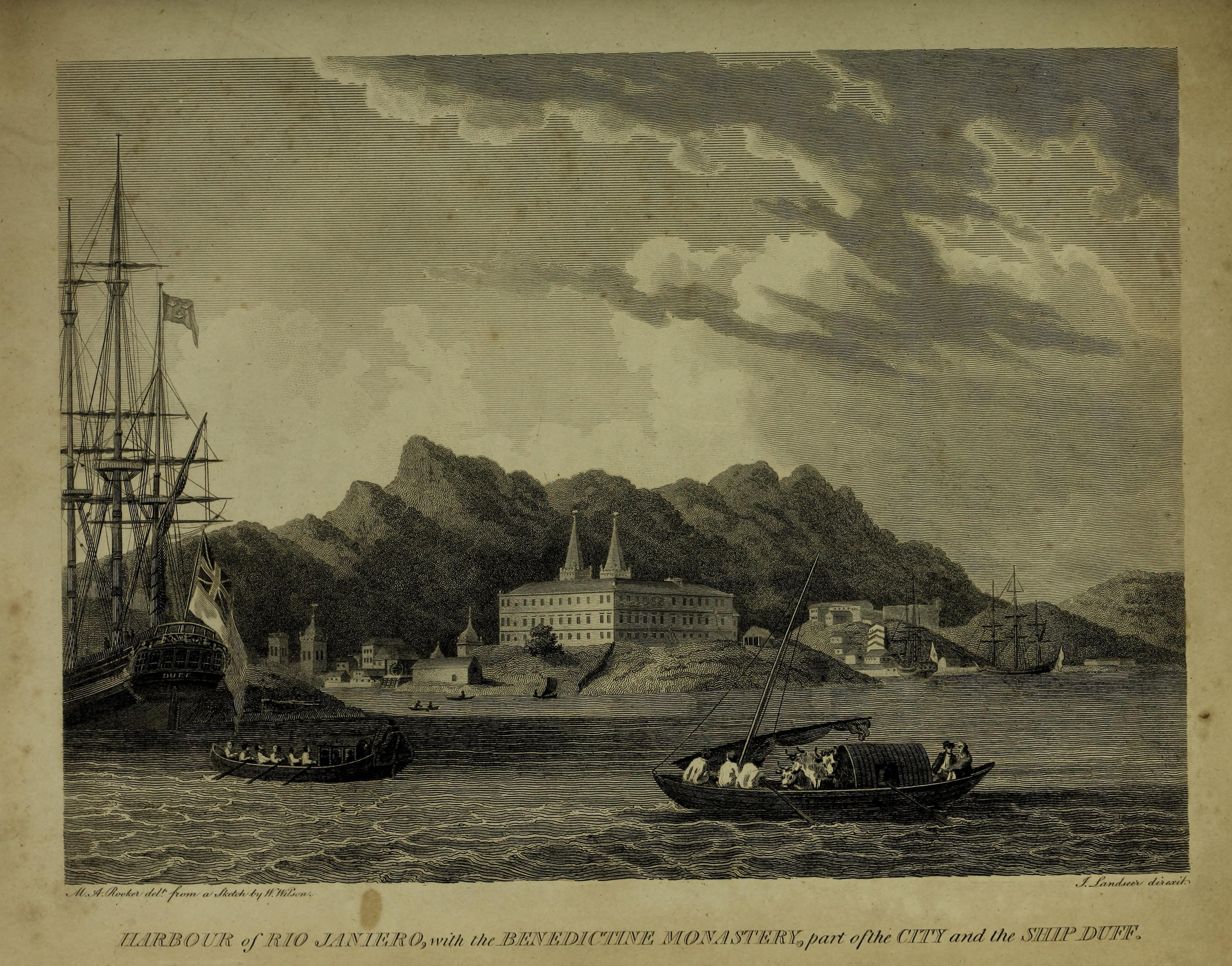 HARBOUR of RIO JANIERO, with the BENEDICTINE MONASTERY, part of the CITY and SHIP DUFF